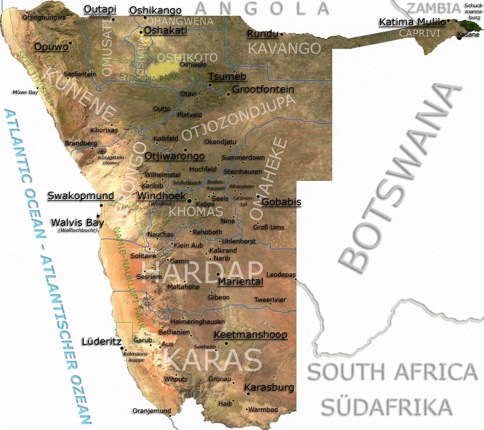 Detaillierte Karte Namibias. (FINALE VERSION) Detailed map of Namibia. (FINAL VERSION)